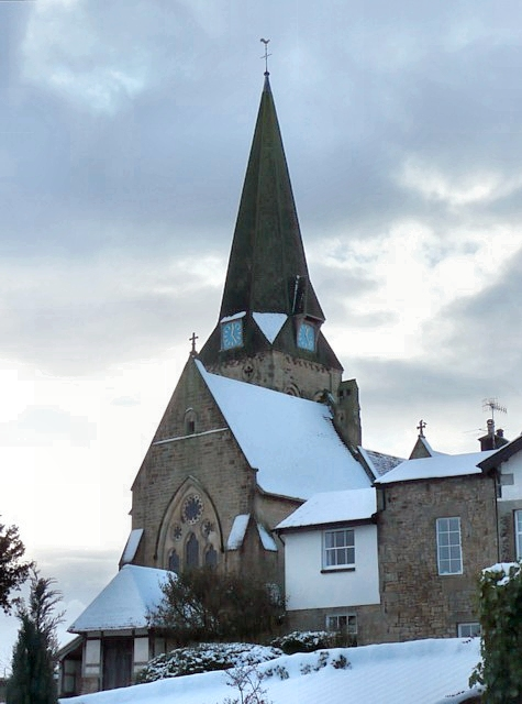 All Saints Church, Burton in Lonsdale Quite a large church, perhaps because of the former importance of the village for silk and wool weaving. It was built in an impressive position by Paley in 1868-76. The tower with spire is on the south side of the nave. The chancel looks to be taller than the nave.